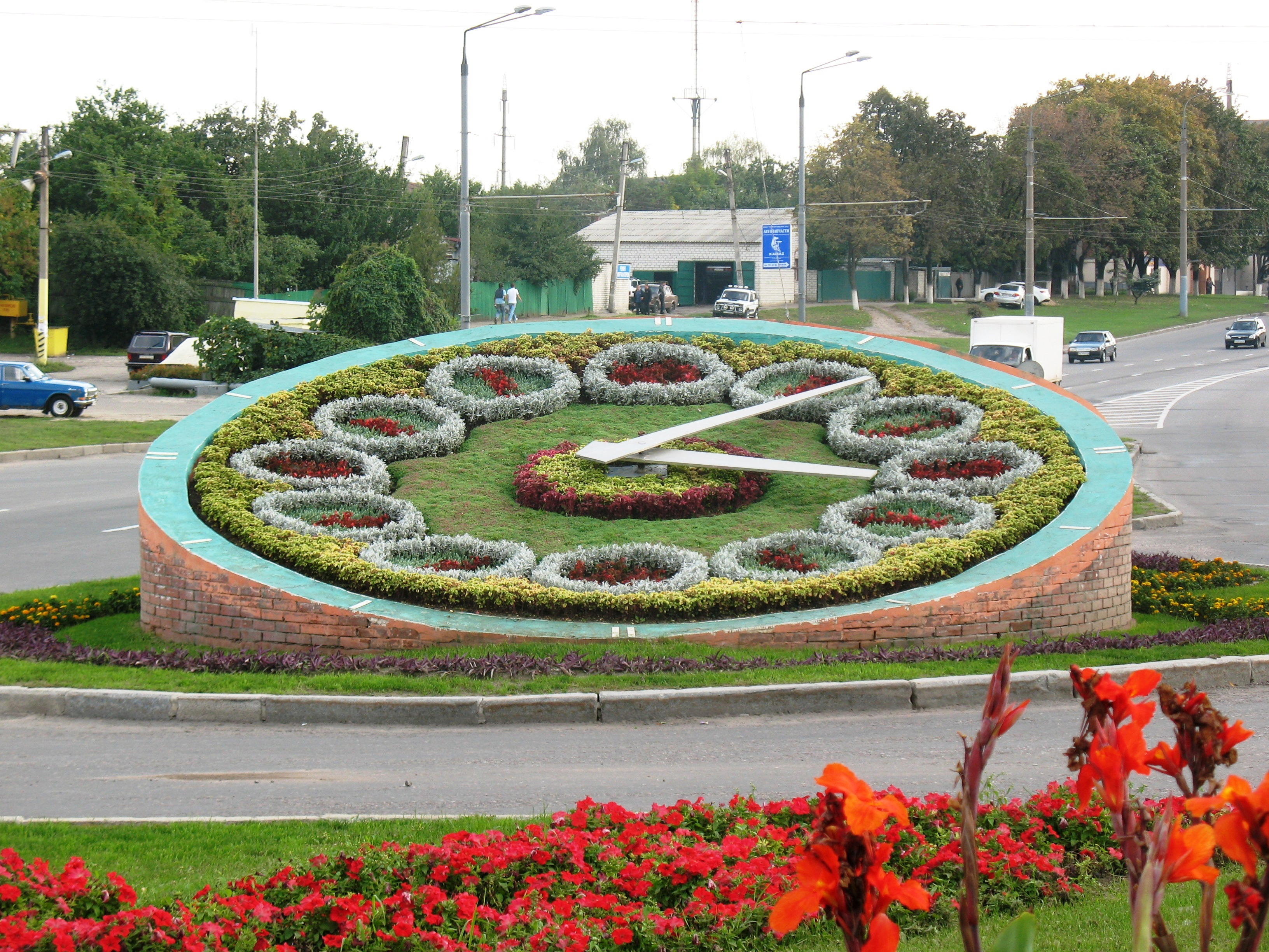 Flowers Clock. Gagarin Prospekt in Kharkov City.